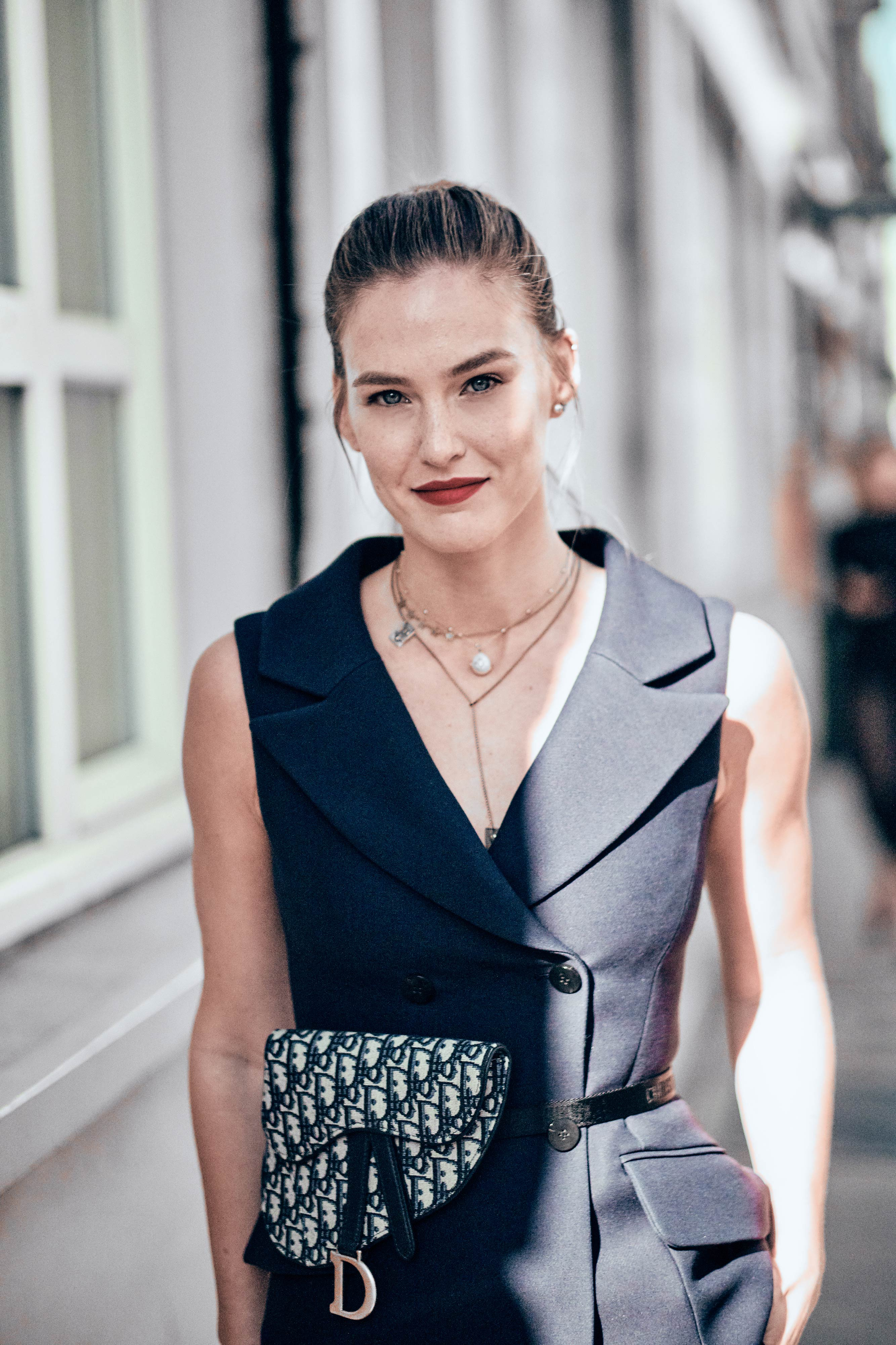 Bar Refaeli at Paris Fashion Week Autumn/Winter 2019